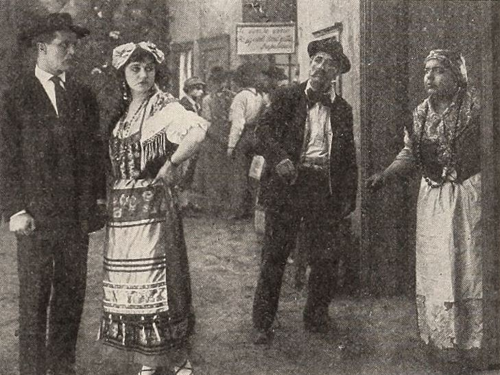 Still from the American drama film The Woman in 47 (1916), on page 115 of the March 1916 Cine-Mundial (American Spanish language magazine).